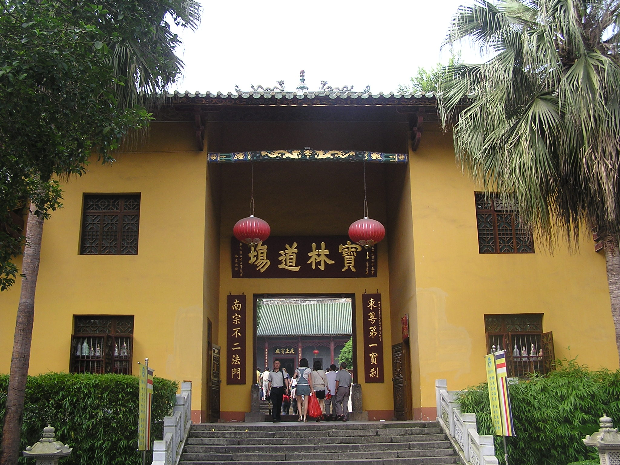 Nanhua Temple, Shaoguan City, Guangdong province, China